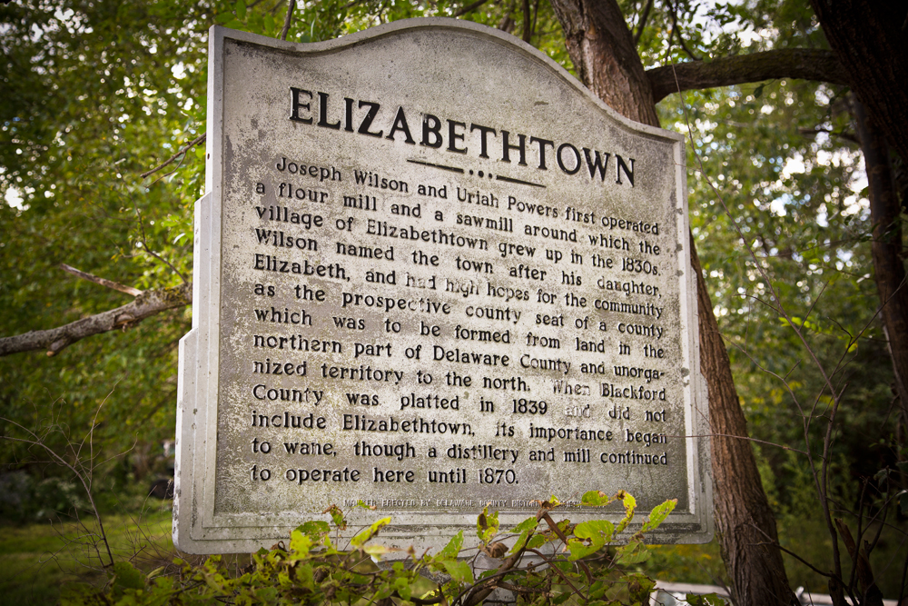 Delaware County Historical Society marker.